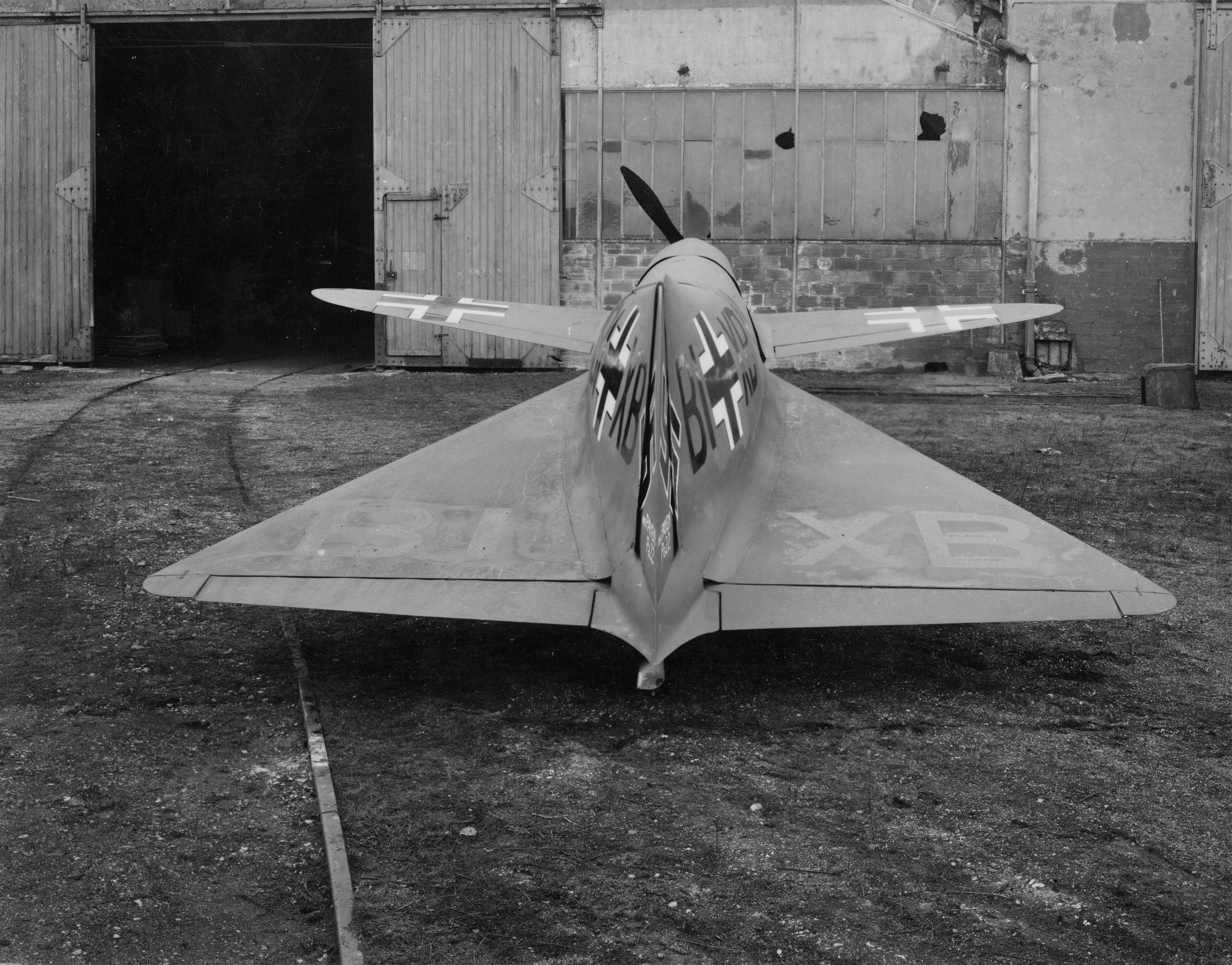 Photo of Payen PA-22 aircraft WW2 samf4u, 13 courtesy of Nico Braas.png